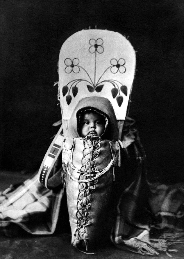 Nez Perce baby, 1911. A traditional Nez Perce cradleboard (1911). Native American baby of the Nez Perce tribe, photographed by Edward S. Curtis, 1911. A child carrier, especially ones resembling those of Native Americans, is sometimes referred to as a Papoose.